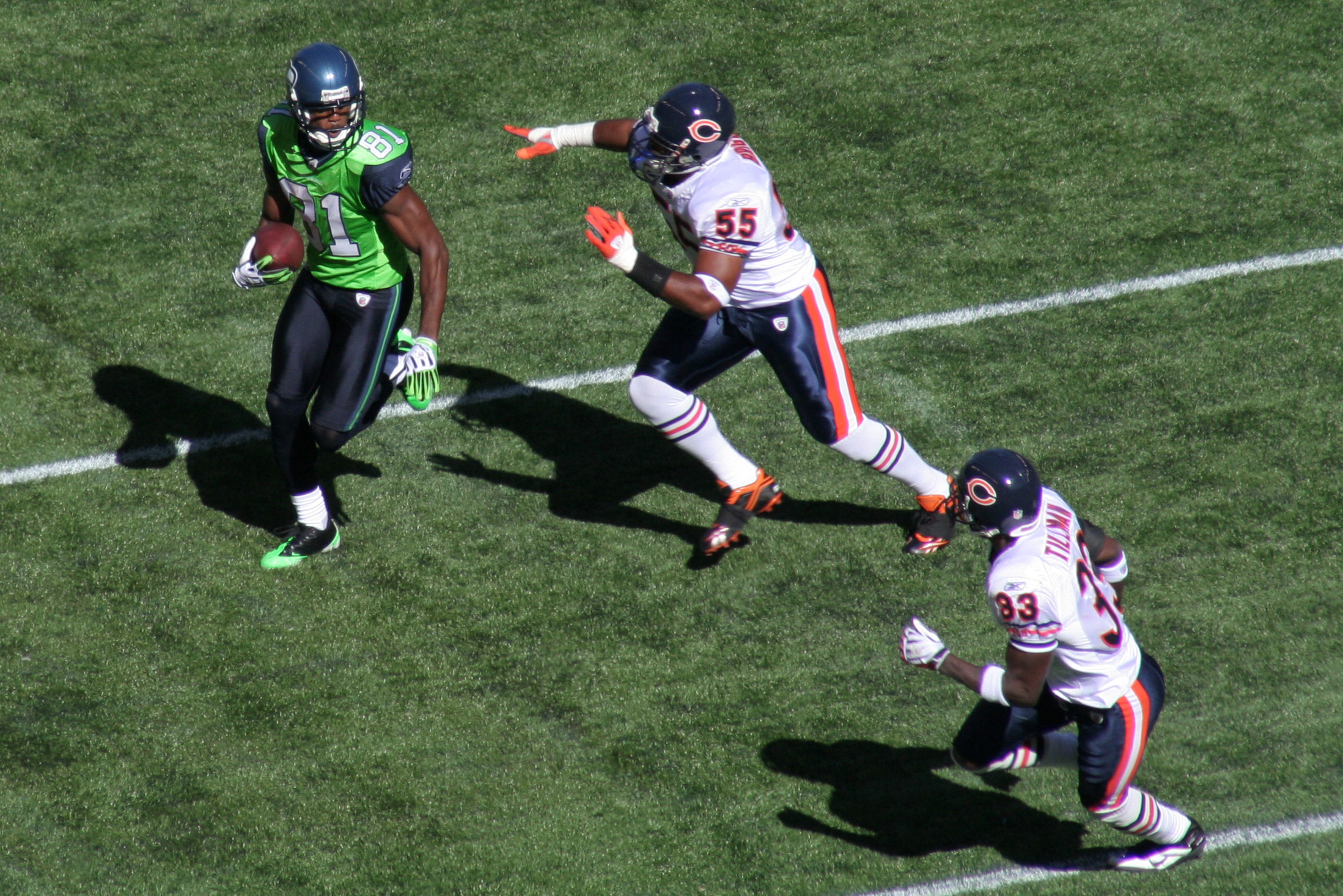 Nate Burleson runs with the ball. Two Chicago Bears defenders are after him: #55 Lance Briggs and #33 Charles Tillman.